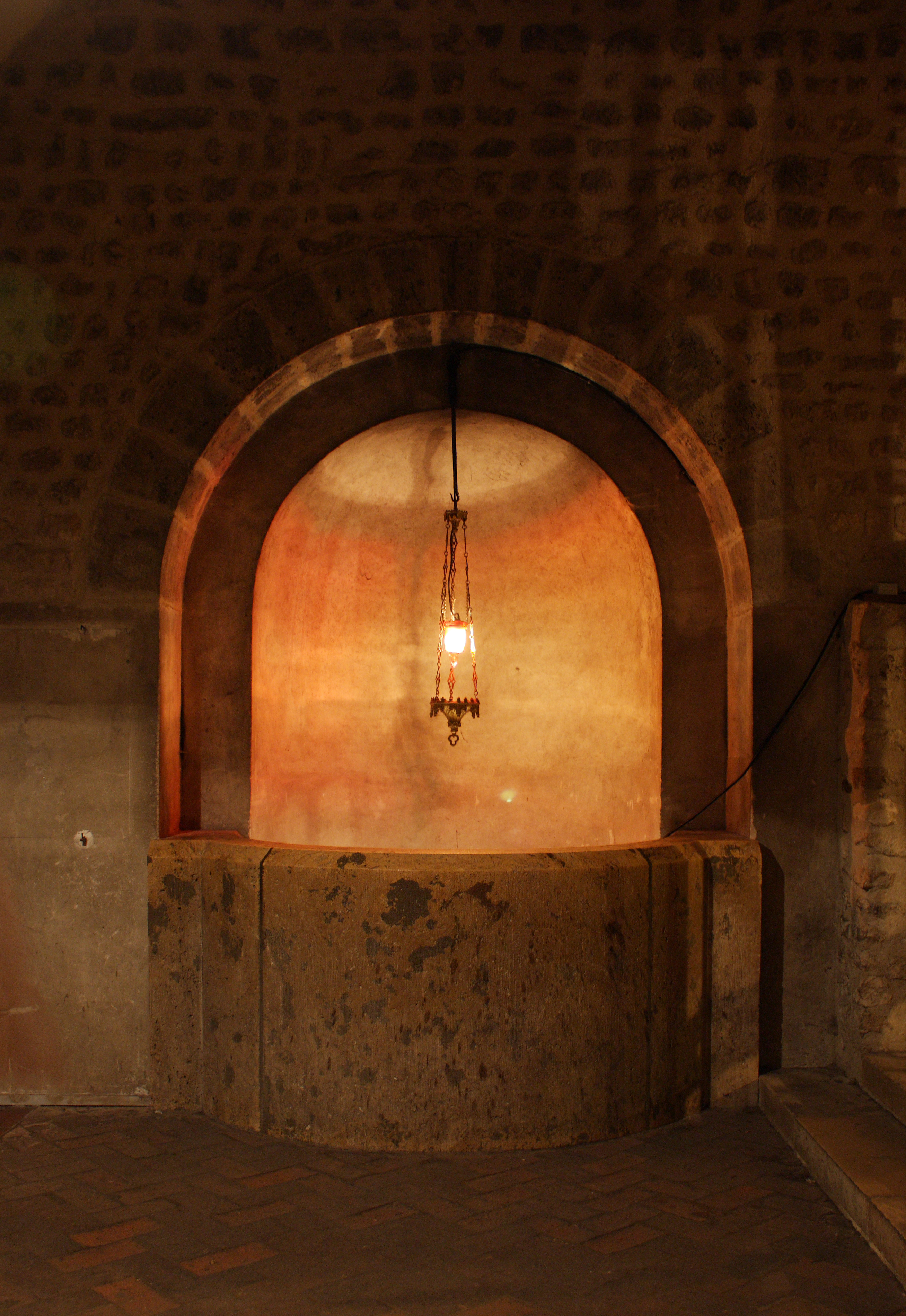 Well of the crypt of Chartres Cathedral.